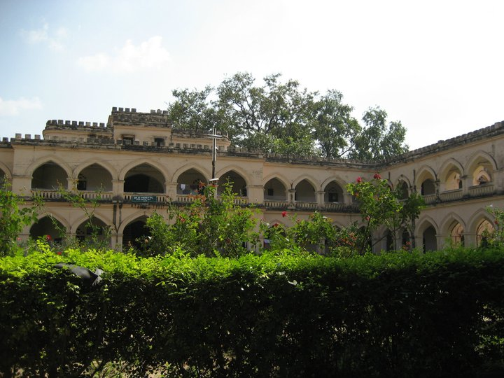 Oldest Men's Hostel